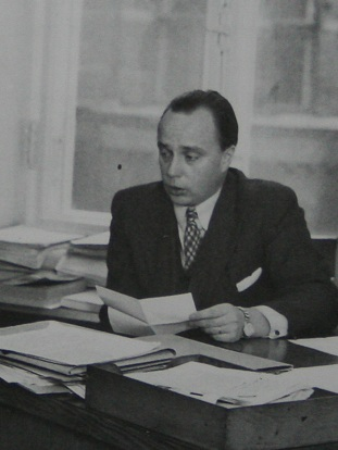 Finnish politician Veikko Vennamo early in his career.